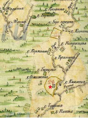 Buy-Gorodok